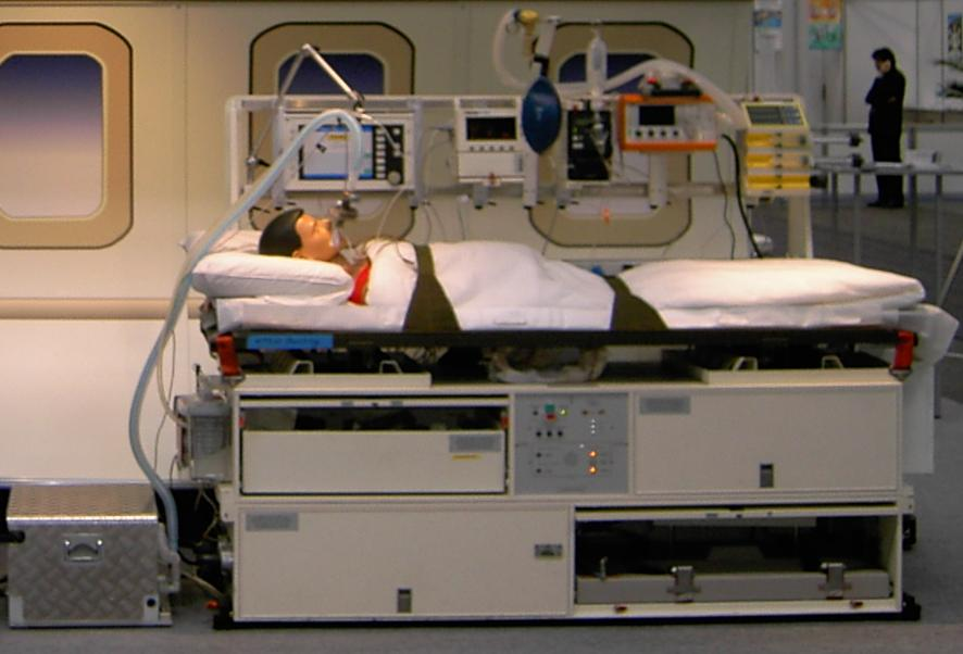 "Patiententransporteinheit (PTE)" (engl: patient transport unit) for medical intensive care in a AIRMEDEVAC-mission with the Airbus A310 MRT/MRTT MedEvac version (Luftwaffe) or with the CH-53G MedEvac version (German Army Aviators Corps) Seen at the CeBIT expo 2005 (Hannover / Germany)